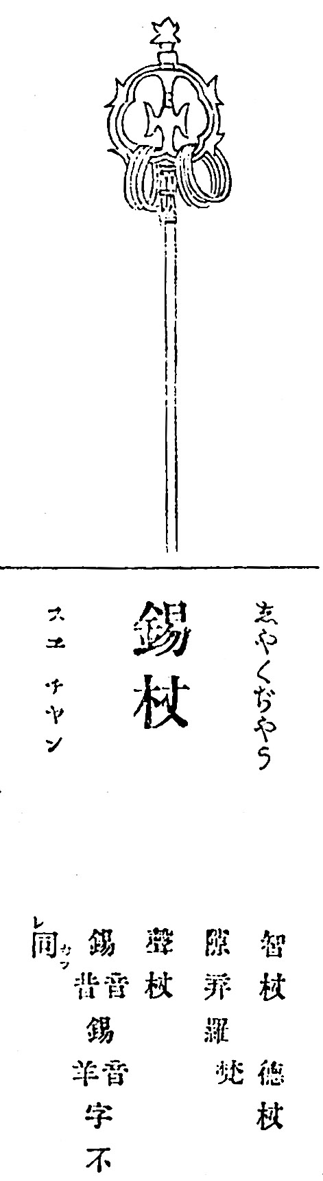 khakkhara, as a Pilgrim's staff in Buddhism